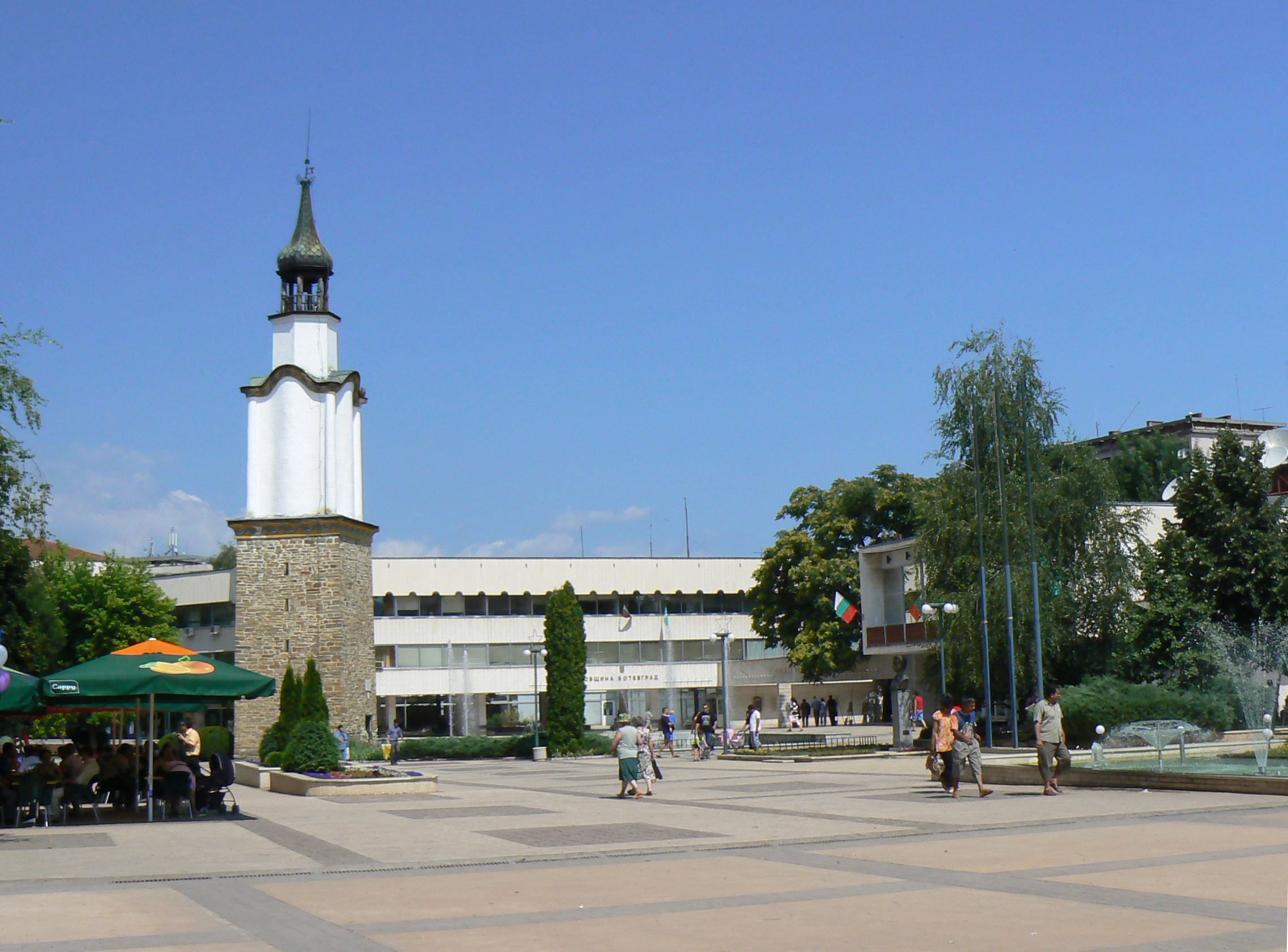 The centre of Botevgrad, Bulgaria